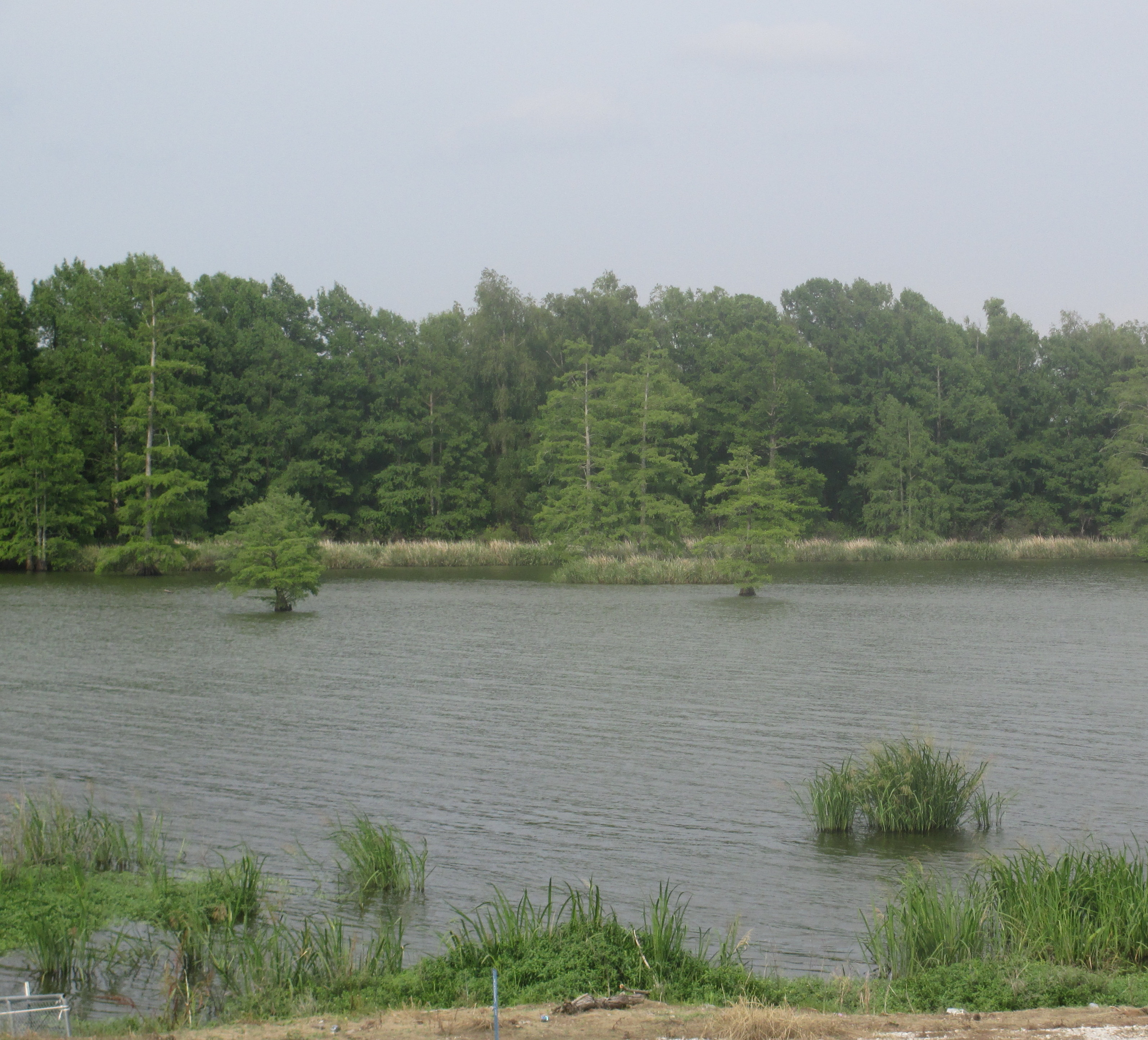 I took photo of Lake St. Joseph in Newellton, LA, with Canon camera.